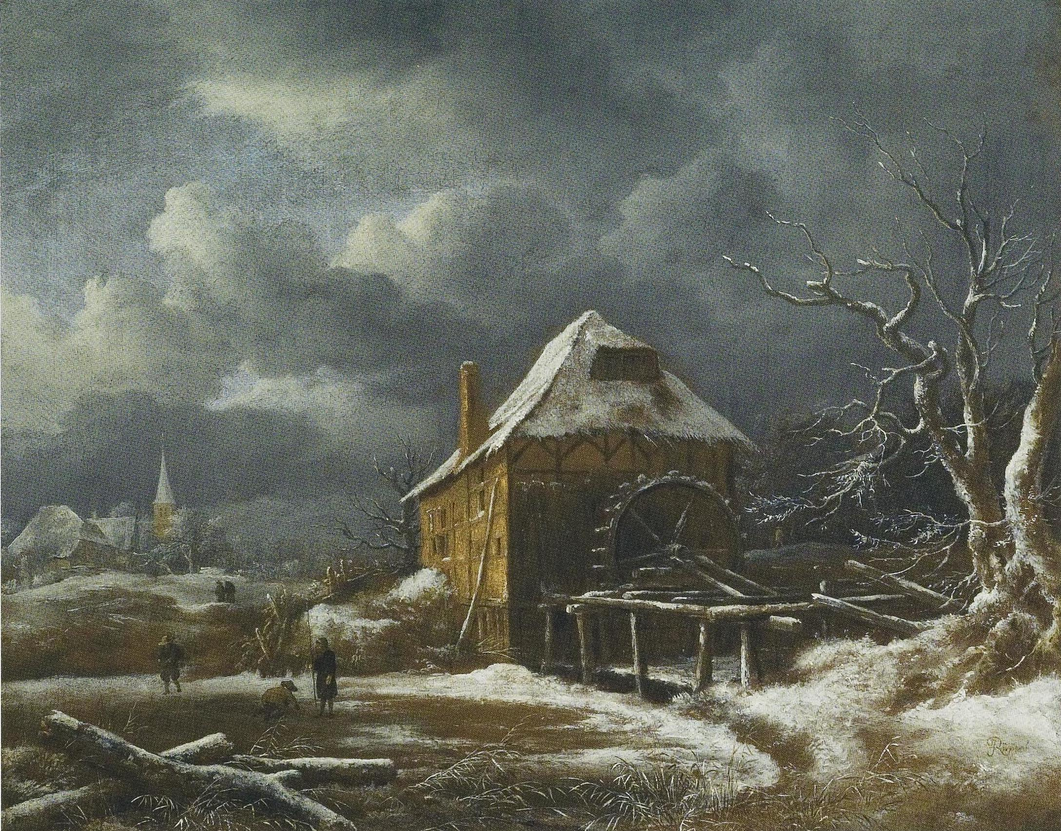 This image is available from the Netherlands Institute for Art Historyunder digital ID 58123. This tag does not indicate the copyright status of the attached work. A normal copyright tag is still required. See Commons:Licensing.